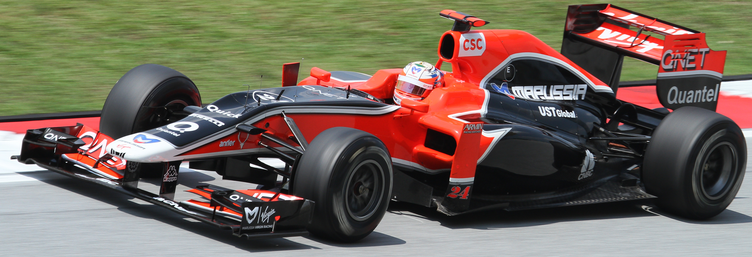 Formula One 2011 Rd.2 Malaysian GP: Timo Glock (Virgin) during the second practice session on Friday.